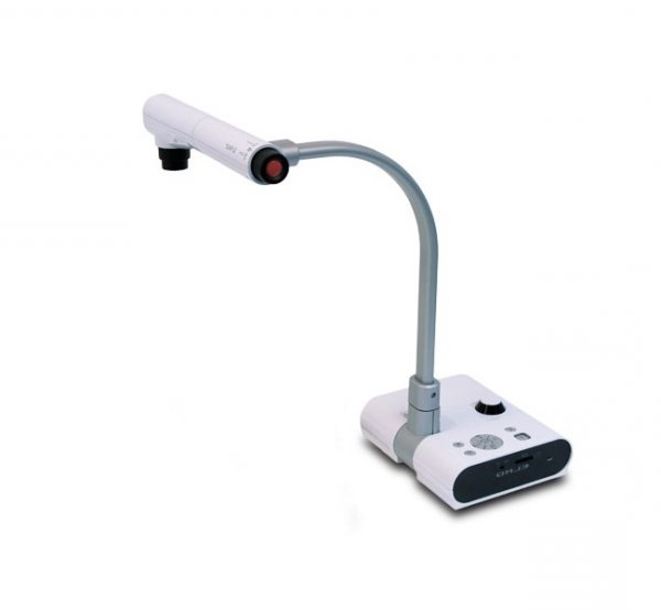 Visualiser / Visual Presenter / Camera Document ELMO L-1ex